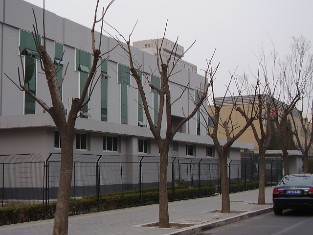 Photograph of an embassy in Beijing